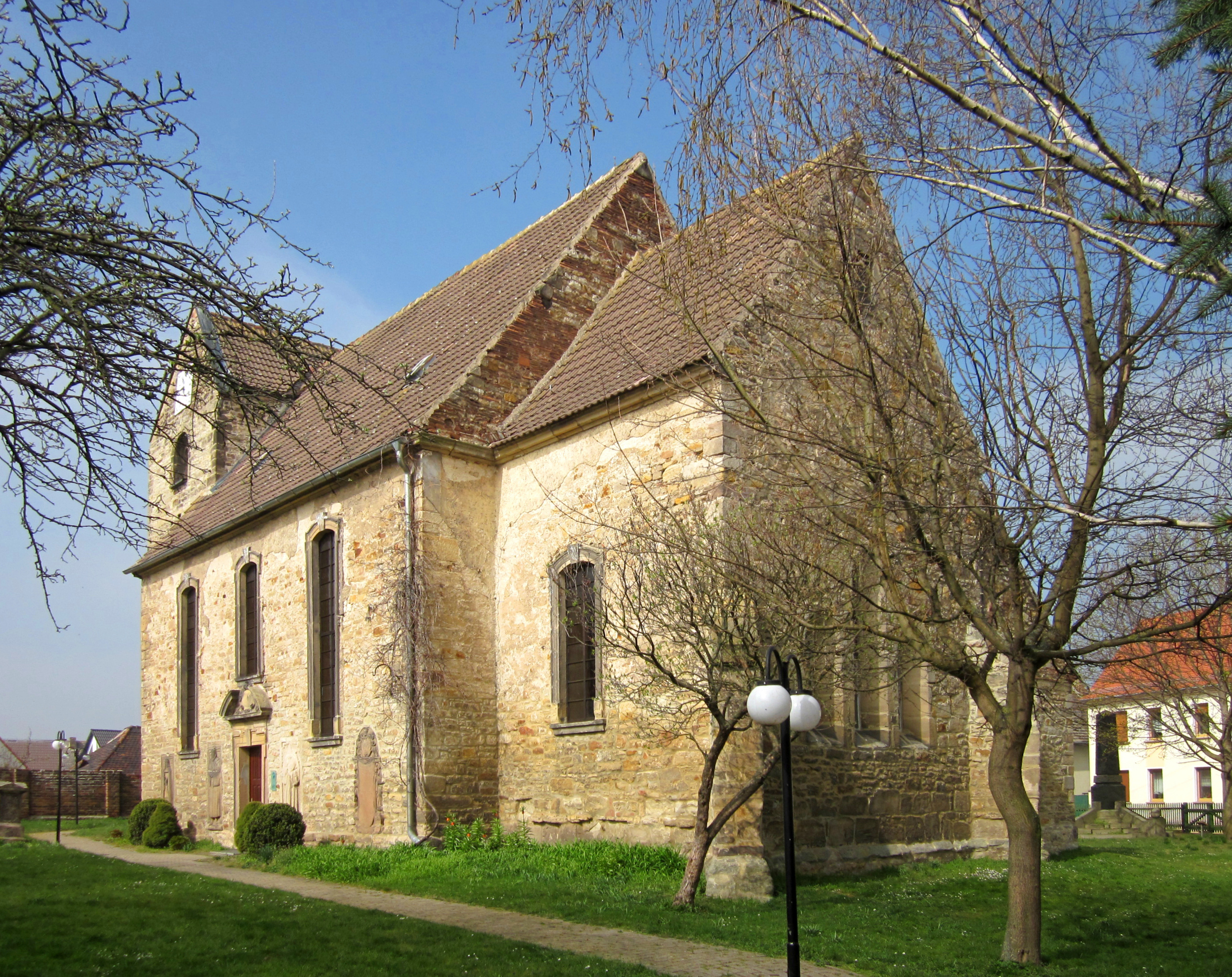 St. John's Church in Oberwünsch (Mücheln/Geiseltal, district of Saalekreis, Saxony-Anhalt)